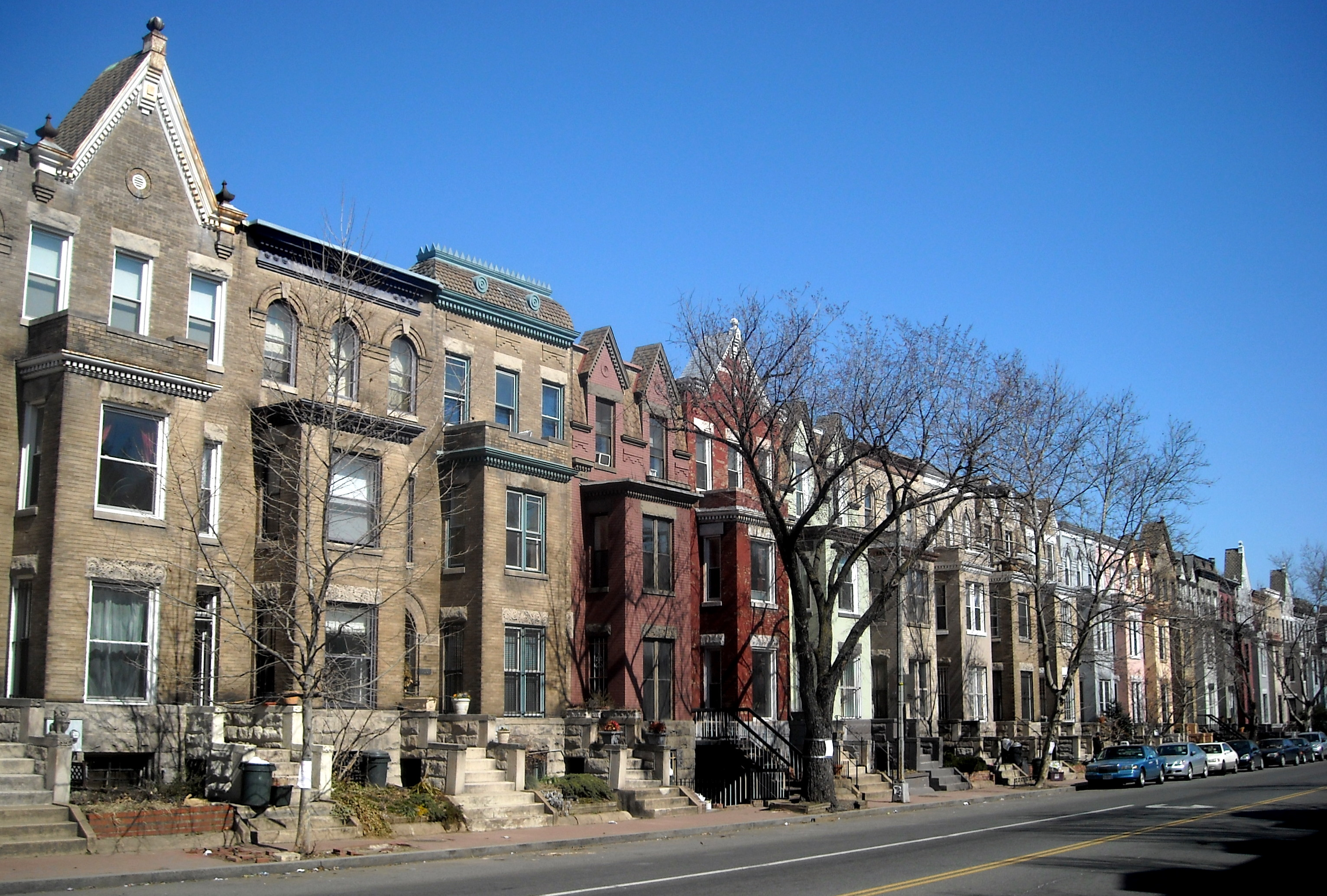 Row houses located on the 1700 block (north side) of U Street, N.W., in the U Street Corridor of Washington, D.C. Built in 1902 by Charles W. King, Sr., following the designs of architect Nicholas T. Haller, the Romanesque Revival-style homes are designated as contributing properties to the Strivers' Section Historic District, listed on the National Register of Historic Places in 1985.